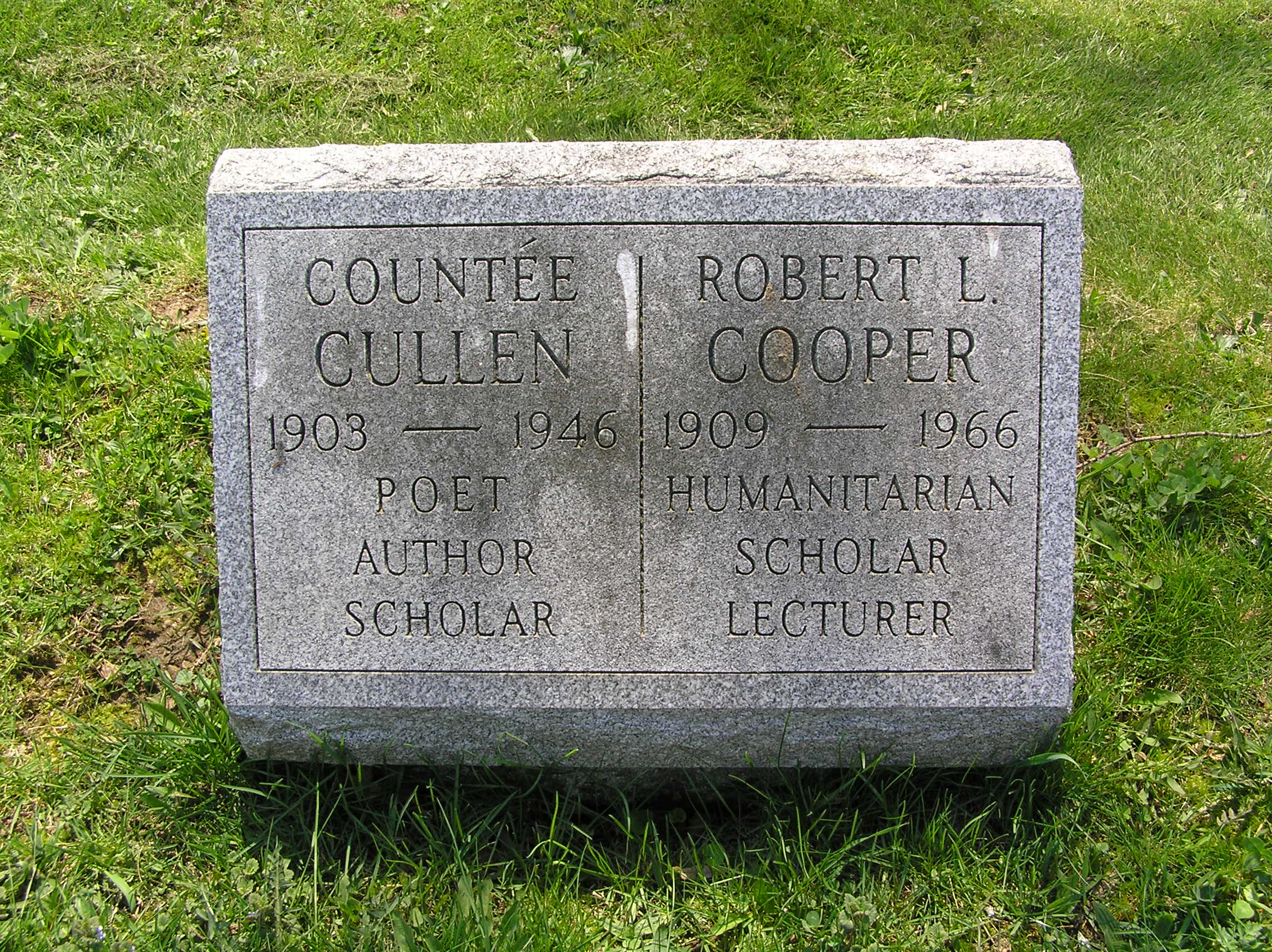 The grave of Countee Cullen in Woodlawn Cemetery, Bronx, NY